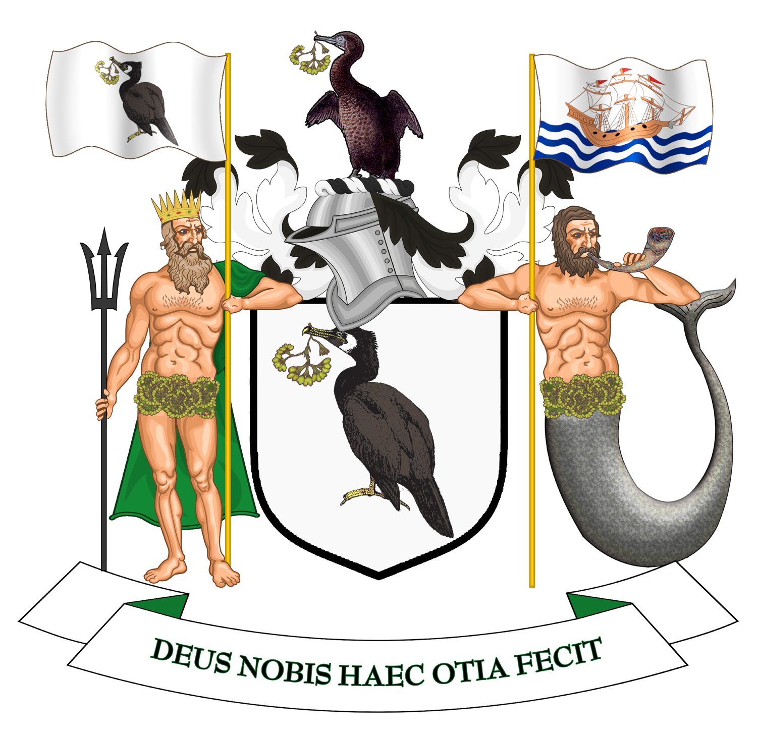 The Coat of arms of Liverpool City Council, the local government authority for the City of Liverpool in Merseyside, England. The blazon is:ARMS: Argent a Cormorant in the beak a Branch of Seaweed called Laver all proper. CREST: On a Wreath of the Colours a Cor­morant the wings elevated in the beak a Branch of Laver proper. SUPPORTERS: On the dexter Neptune with his Sea-Green Mantle flowing the waist wreathed with Laver on his head an Eastern Crown Gold in the right hand his Trident Sable the left supporting a Banner of the Arms of Liverpool on the sinister a Triton wreathed as the dexter and blowing his Shell the right hand supporting a Banner thereon a Ship under sail in perspective all proper the Banner Staves Or.